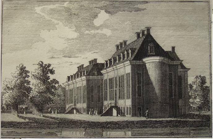 "'t Vorstelyk Lusthuys 't Oranye-Wout" 13 x 19 centimeter